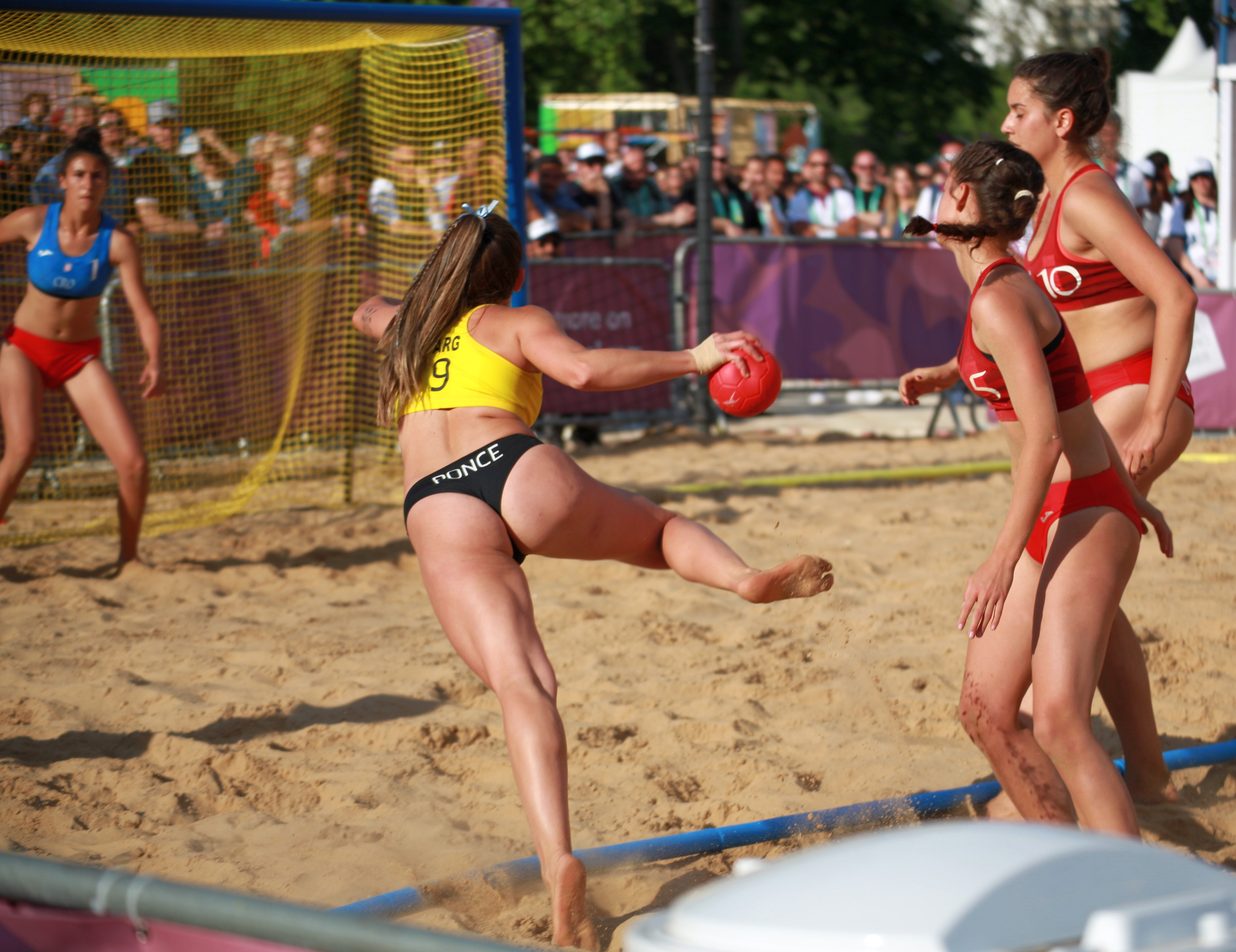 Beach handball at the 2018 Summer Youth Olympics in Buenos Aires at 13 October 2018 – Girls Gold Medal Match – Argentina-Croatia 2:0